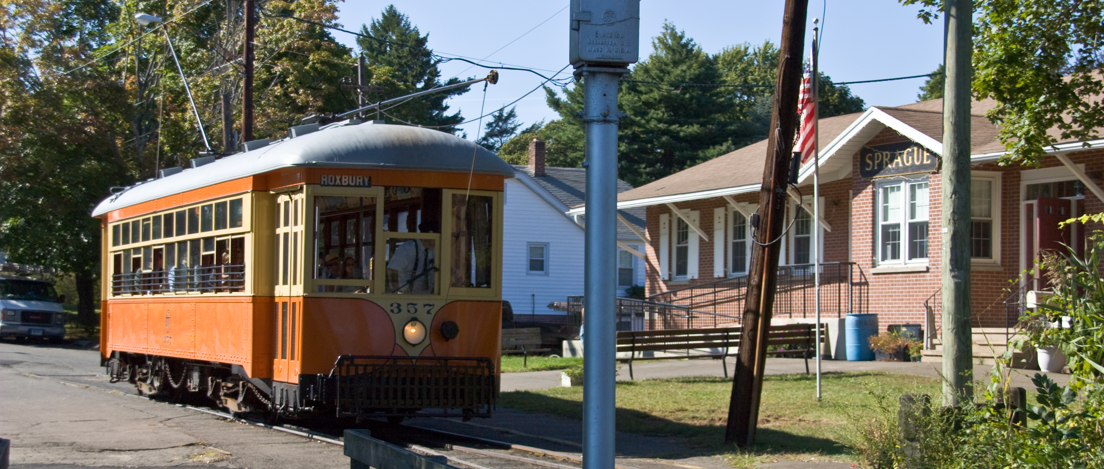 Former Johnstown Electric #357 at East Haven Trolley Museum - Branford Electric Railroad Association - East Haven, CT